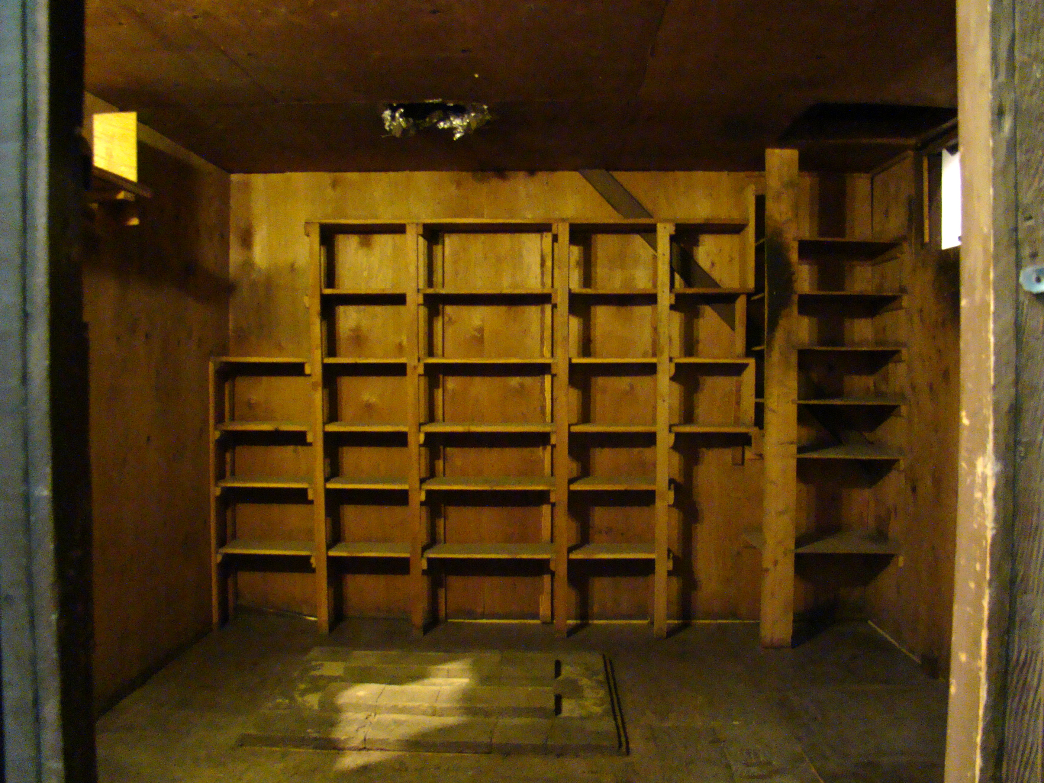 The Unabomber's shack/shed, on display in the Newseum, Washington, D.C.